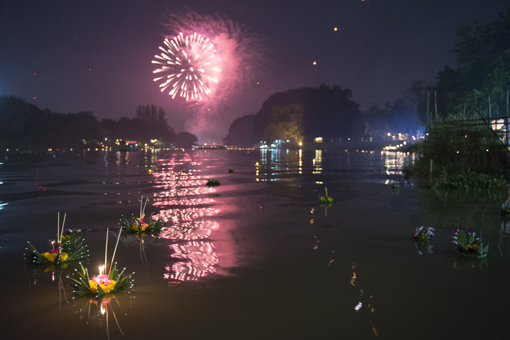 Celebration of Loi Krathong 2014, Chiang Mai, Thailand